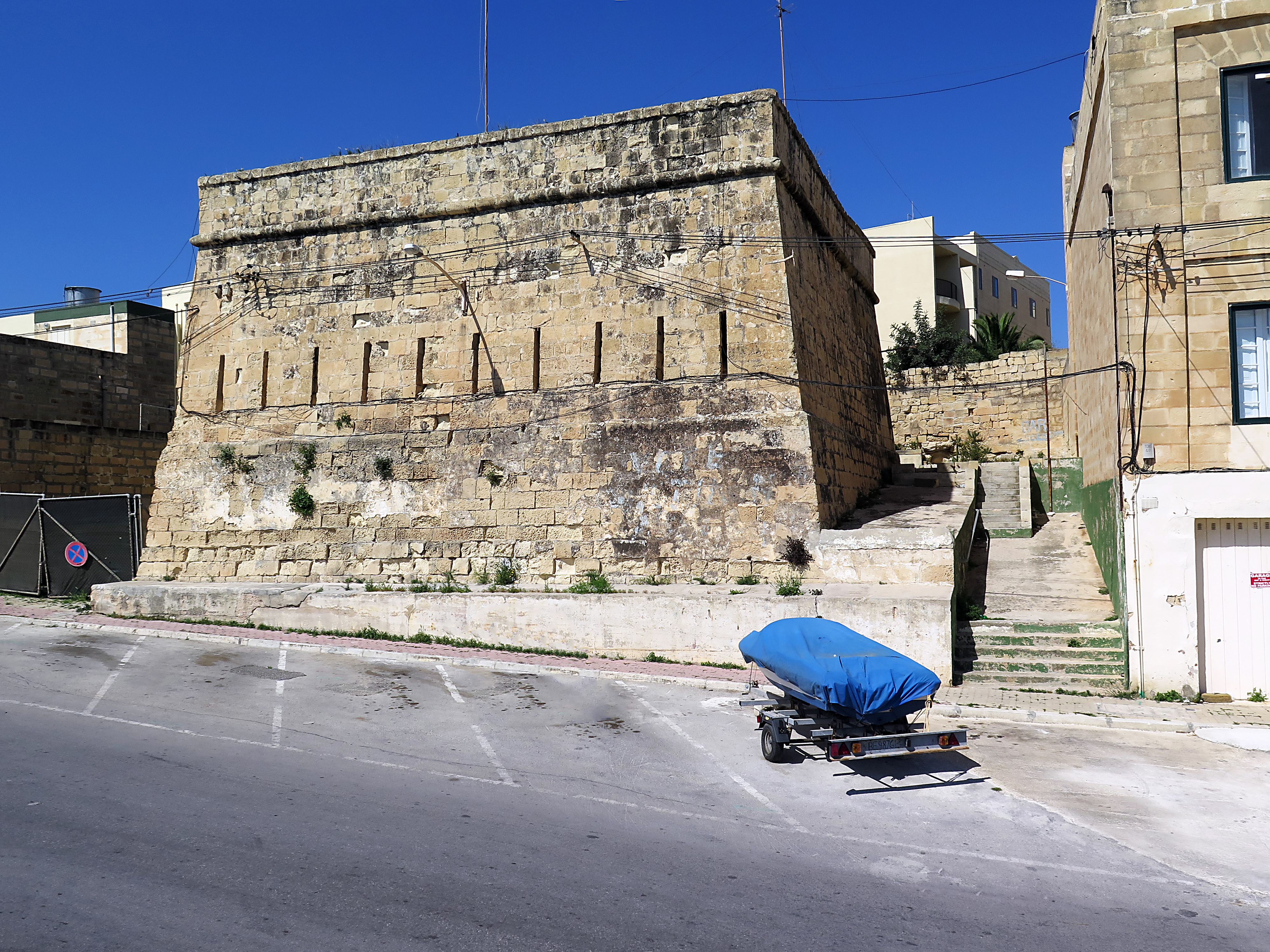 Vendôme Redoubt built 1715 in Marsaxlokk Bay, Malta Malti: It-Torri Vendôme mibni mill-Kavallieri ta' San Ġwann f'Marsaxlokk, Malta This media is about Maltese cultural property with inventory number 01407.